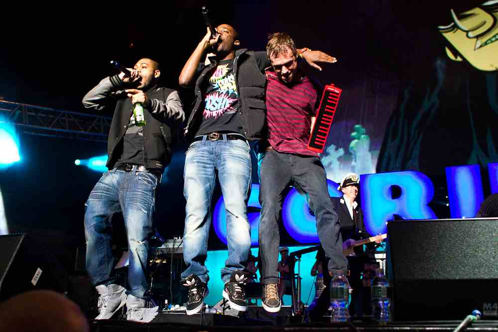 Kano, Bashy & Damon Albarn at Madison Square Gardens - New York